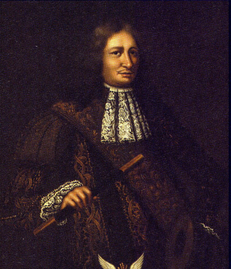 Portrait of Cornelis Speelman, Governor-General of the Dutch East Indies from 1681 to 1684. Part of the Governors-general series.